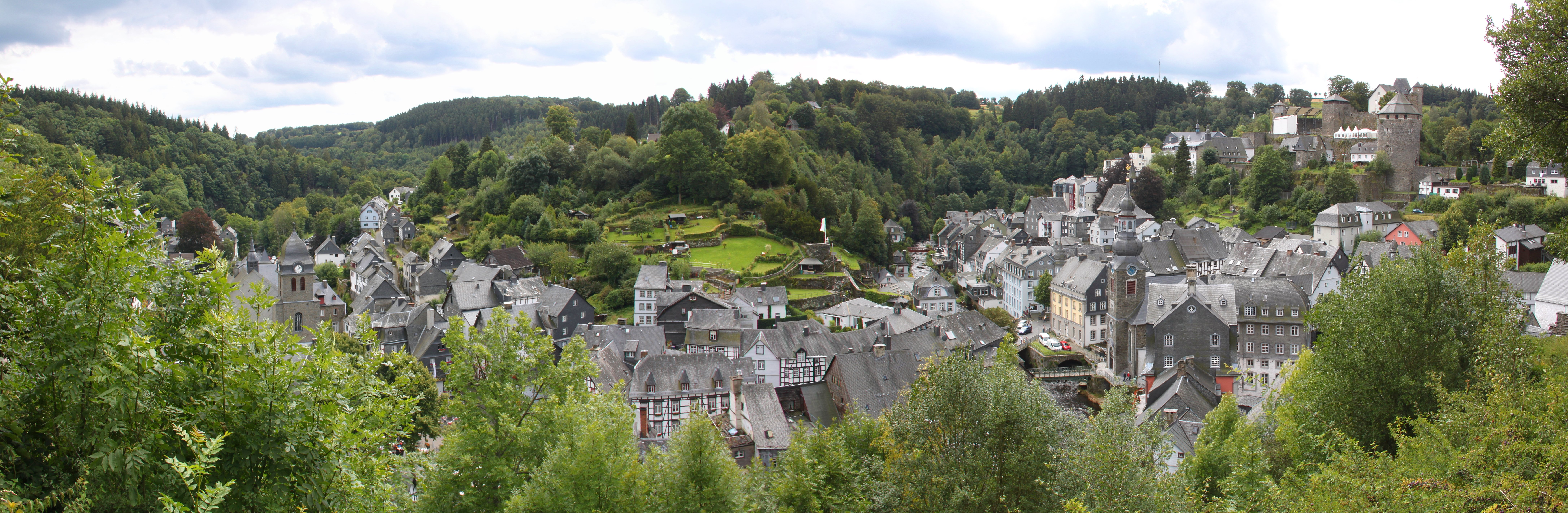 Panoramic of Monschau.